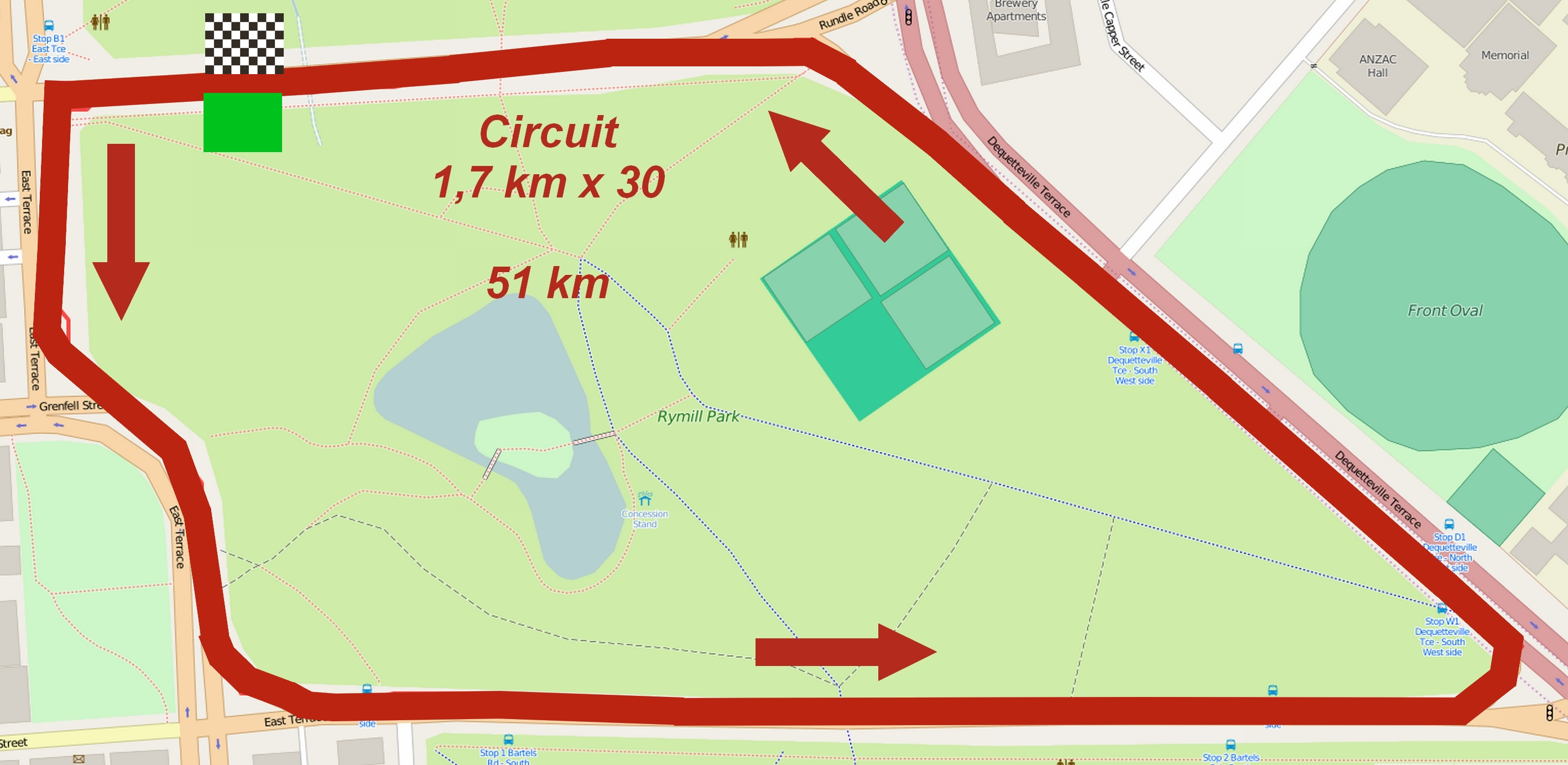 Parcours de la People's Choice Classic 2016. This map may be incomplete, and may contain errors. Don't rely solely on it for navigation.